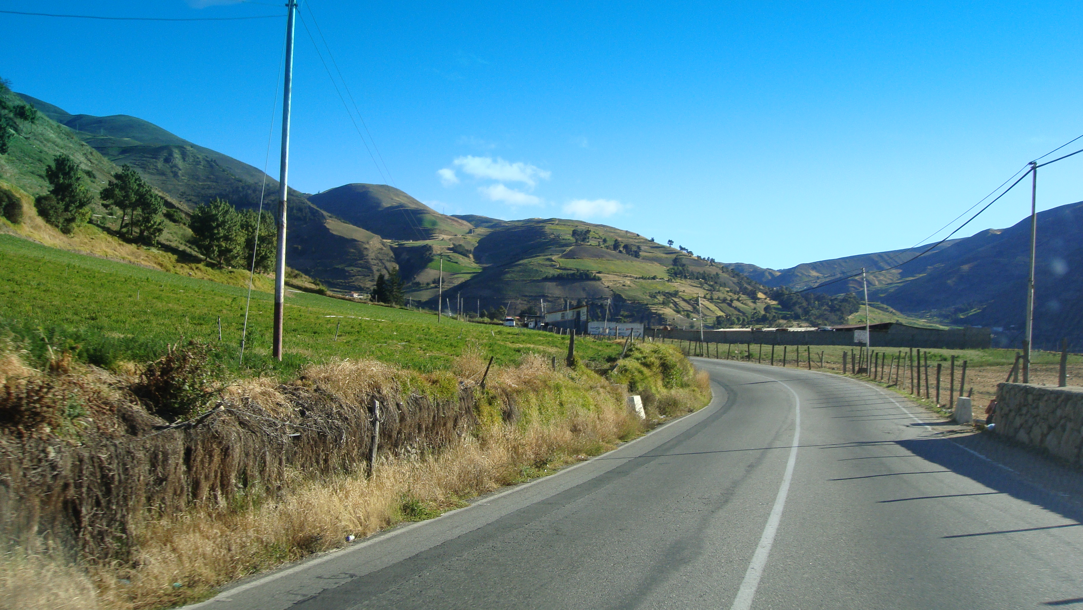 The highway in Mérida, Venezuela.